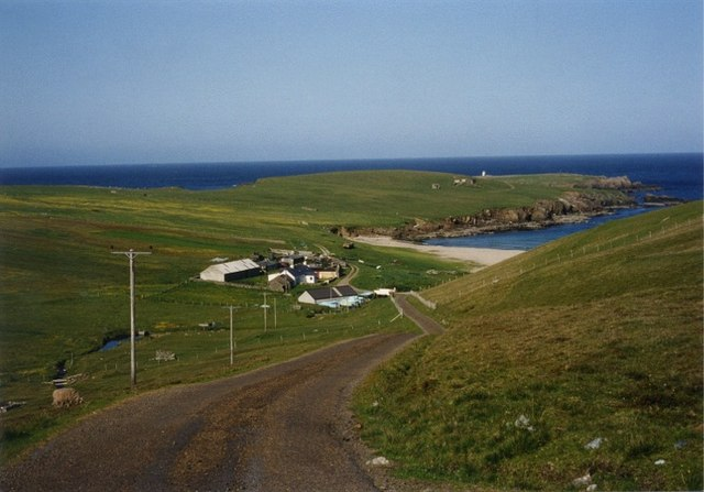 The road to Skaw Isle of Unst, Shetland. This is the UK's most northerly settlement.